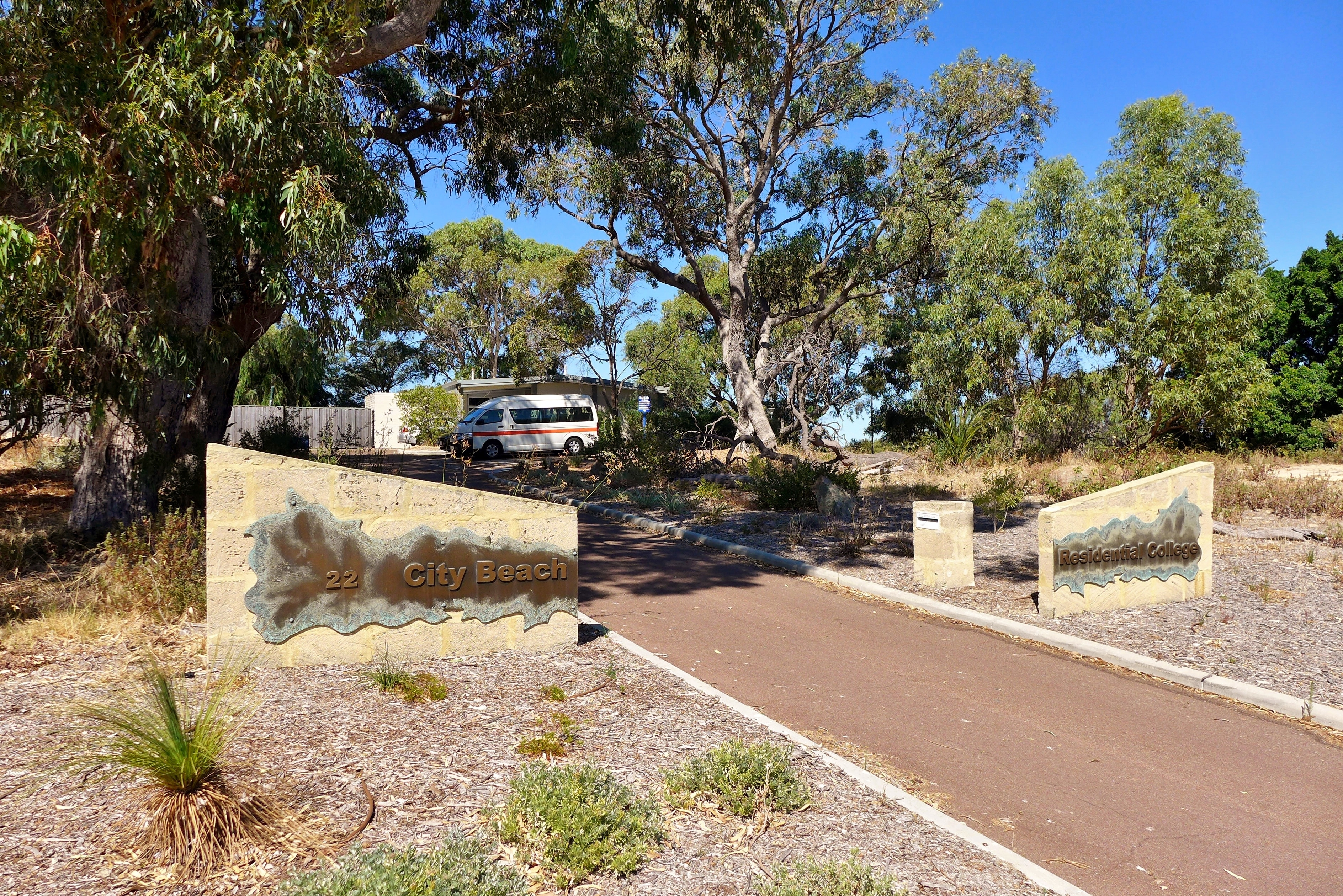 View of the entrance to the City Beach Residential College, City Beach, Western Australia, which is used to house gifted and talented students attending Perth Modern School and other Perth schools.